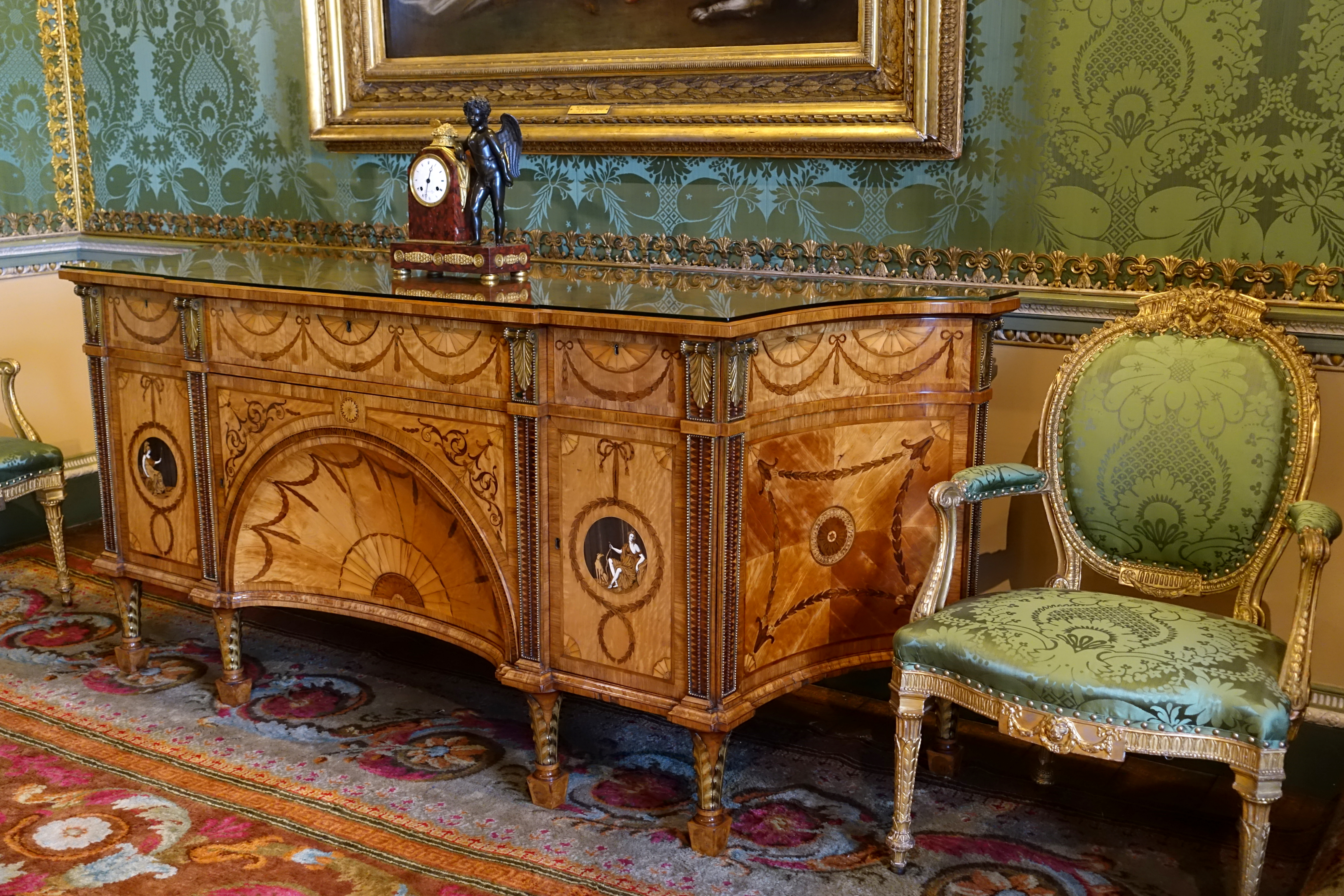 Object displayed in Harewood House - West Yorkshire, England.